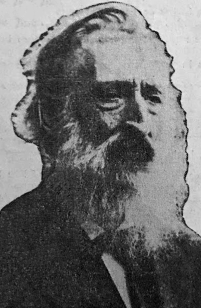 A photograph of Roe for a Newburgh News interview held at The Cedars, published on September 24th, 1914. In the interview, he announces his retirement from his writing career due to health reasons.